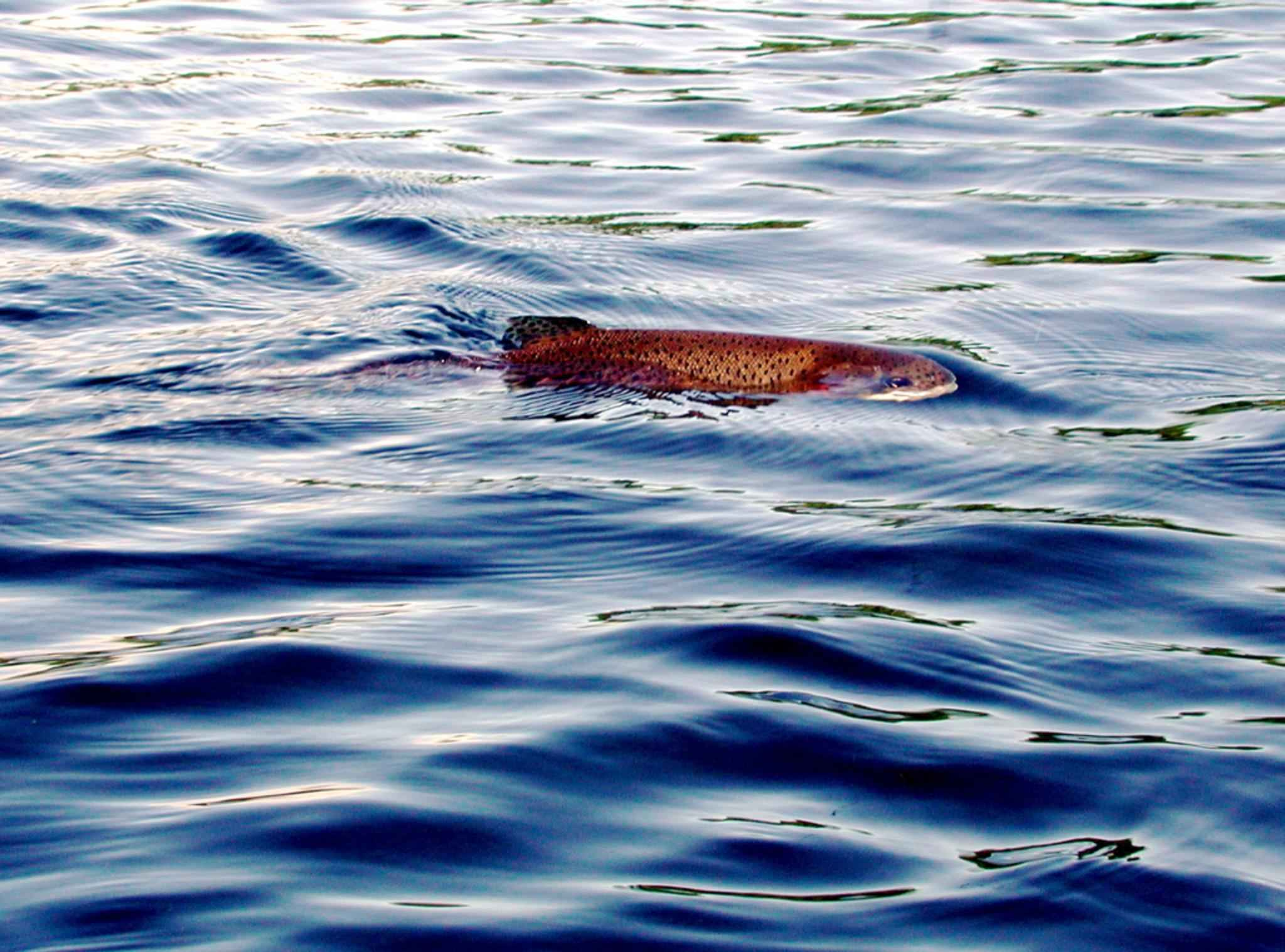 Image title: Rainbow trout fish on water surface Image from Public domain images website